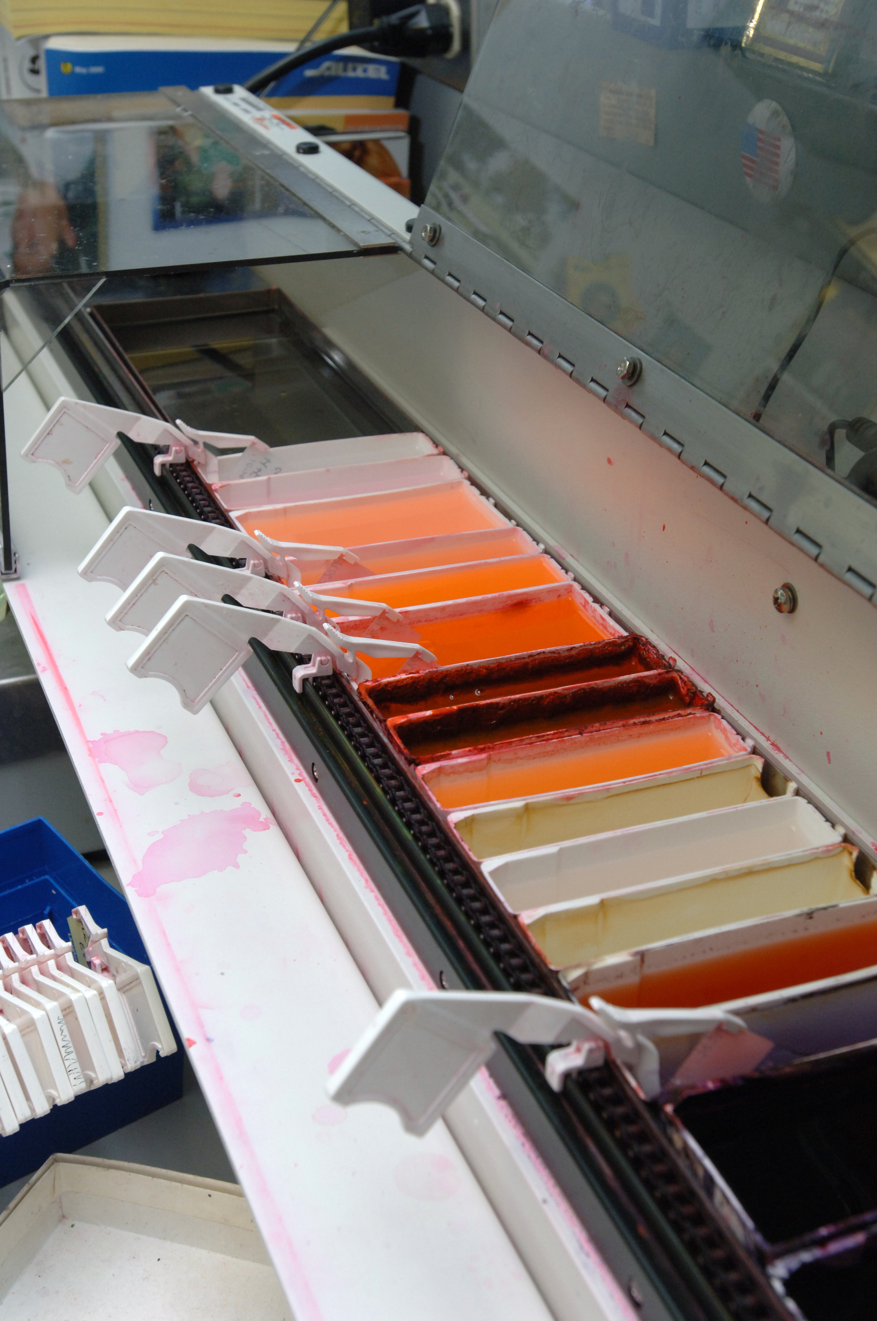 Tissue sections on slides are stained using hematoxylin and eosin on an automated stainer. This is the routine "H&E" stain, which is used on almost all specimens. Hematoxylin, which is blue or purple, stains mostly nuclei, while the pink to orange eosin stains cytoplasm, nucleoli, and extracellular substances like collagen. After staining, the processor takes the slides through a dehydrating solvent, usually alcohol or acetone, and then into a "clearing agent" either xylene or a citrus-smelling substance called Americlear. Sometimes it is necessary to supplement the H&E with "special stains" or "immunostains"